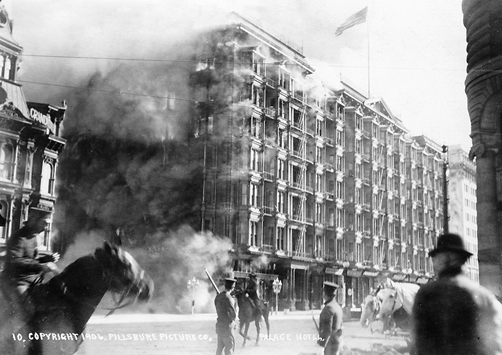 The Palace Hotel burns after the earthquake in San Francisco, April 18, 1906